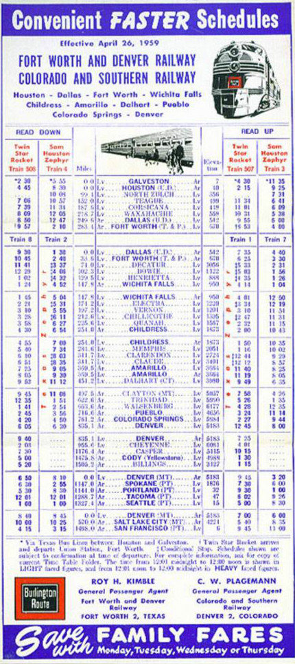 Fold out schedule for the Zephyrs serving Texas in 1959. Since the line was operated in cooperation with the Rock Island, their Twin Star Rocket appears on the schedule as well. The 1959 schedule for both the Sam Houston and Texas Zephyrs are listed.